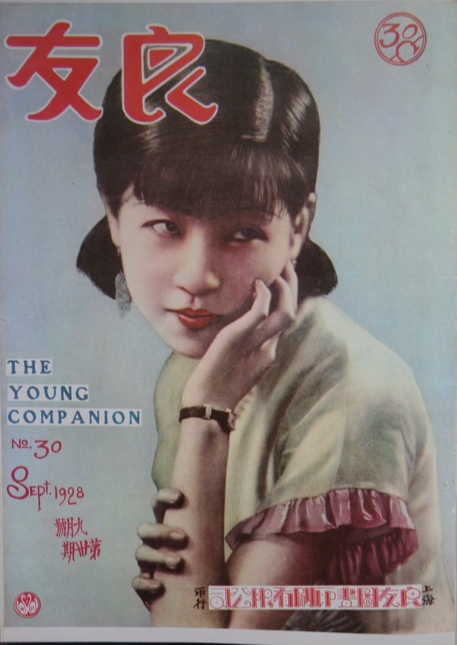 Ruan Lingyu on the cover of Liangyou magazine #30.